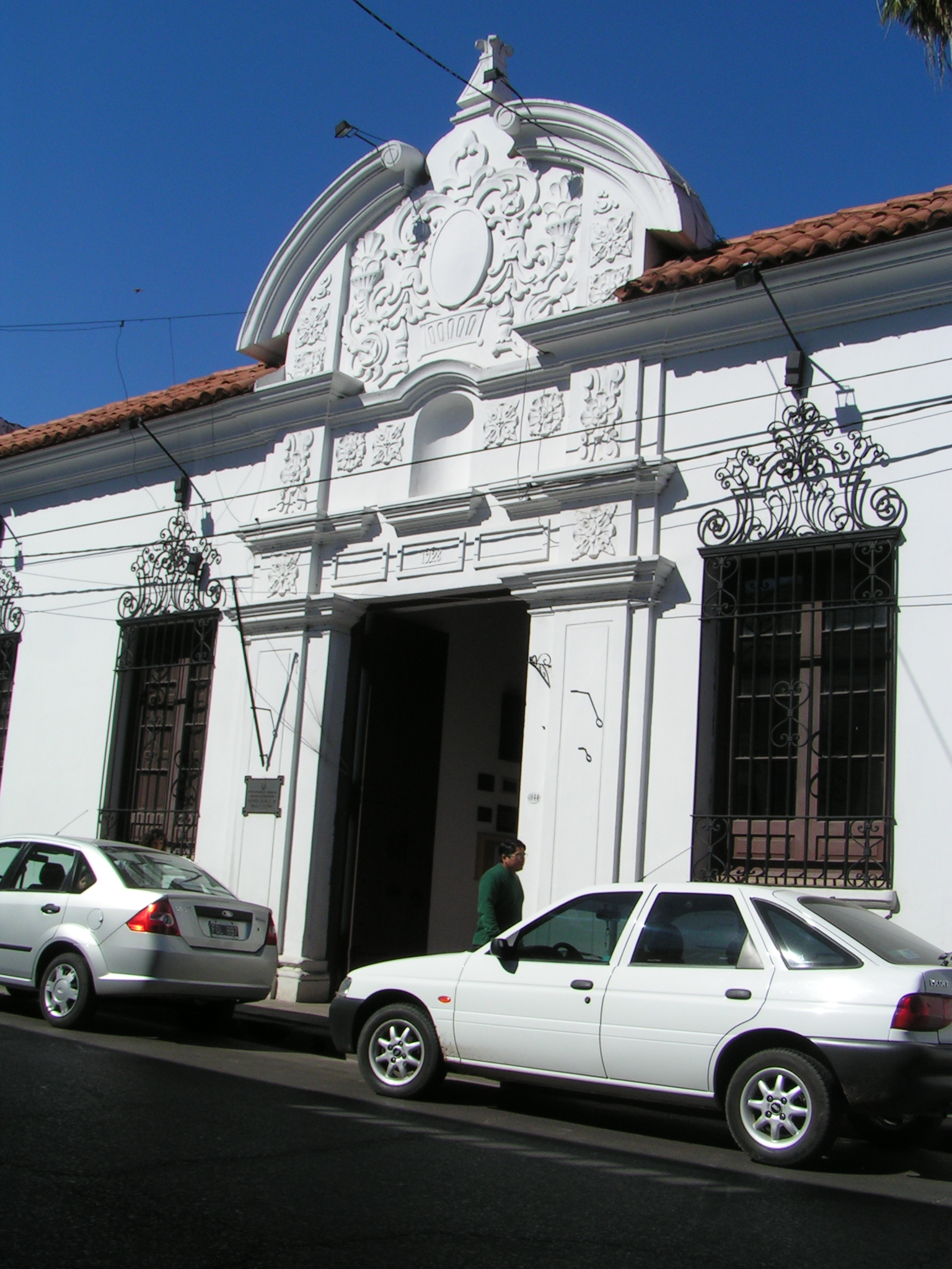 Front of the Corrientes Historical Museum, a National historic landmark. The building was originally designed in the Italianate style of architecture but was later renovated in the neocolonial style of architecture.